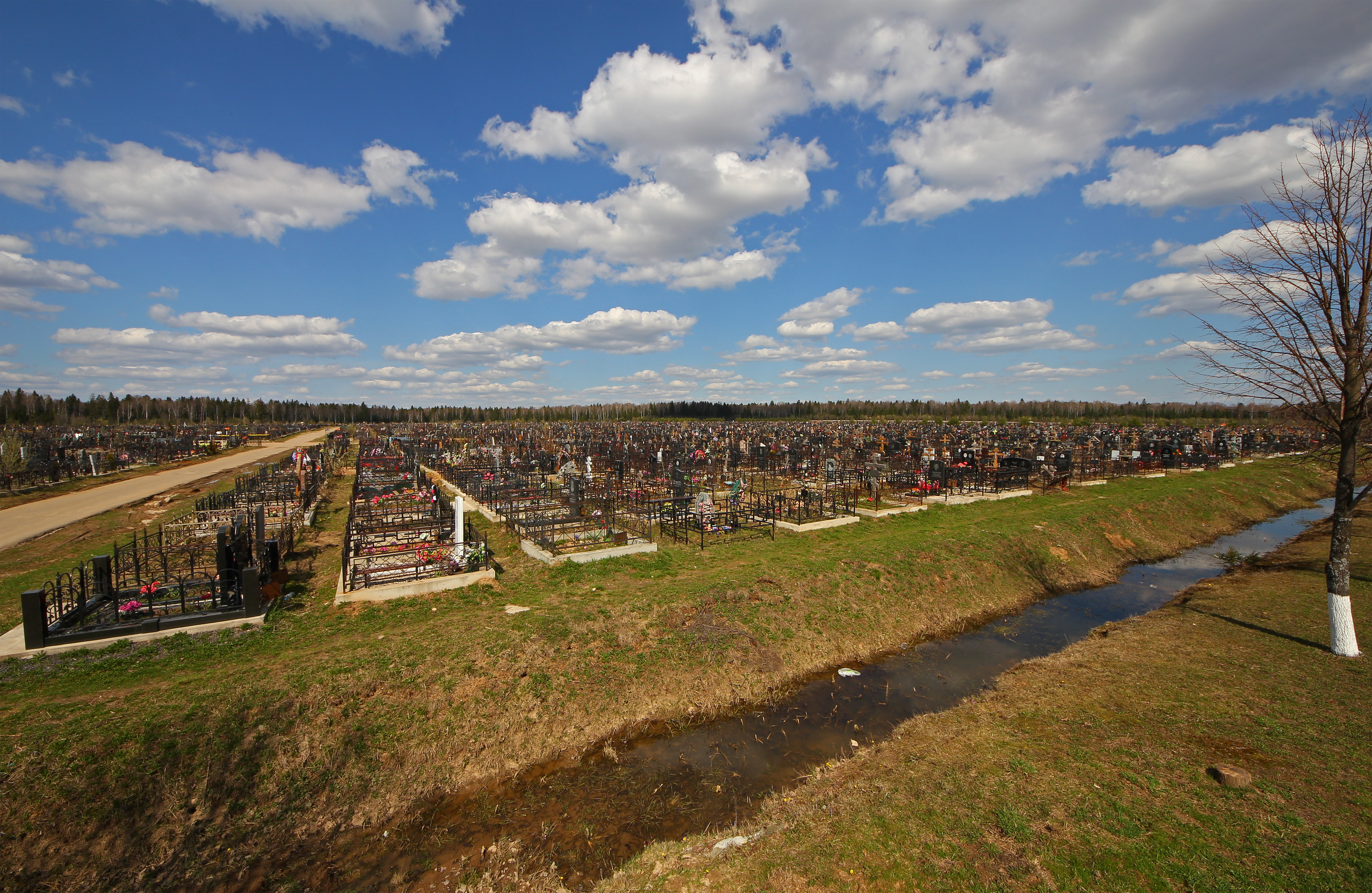 Perepechino Cemetery in the Moscow Region. A grave field.